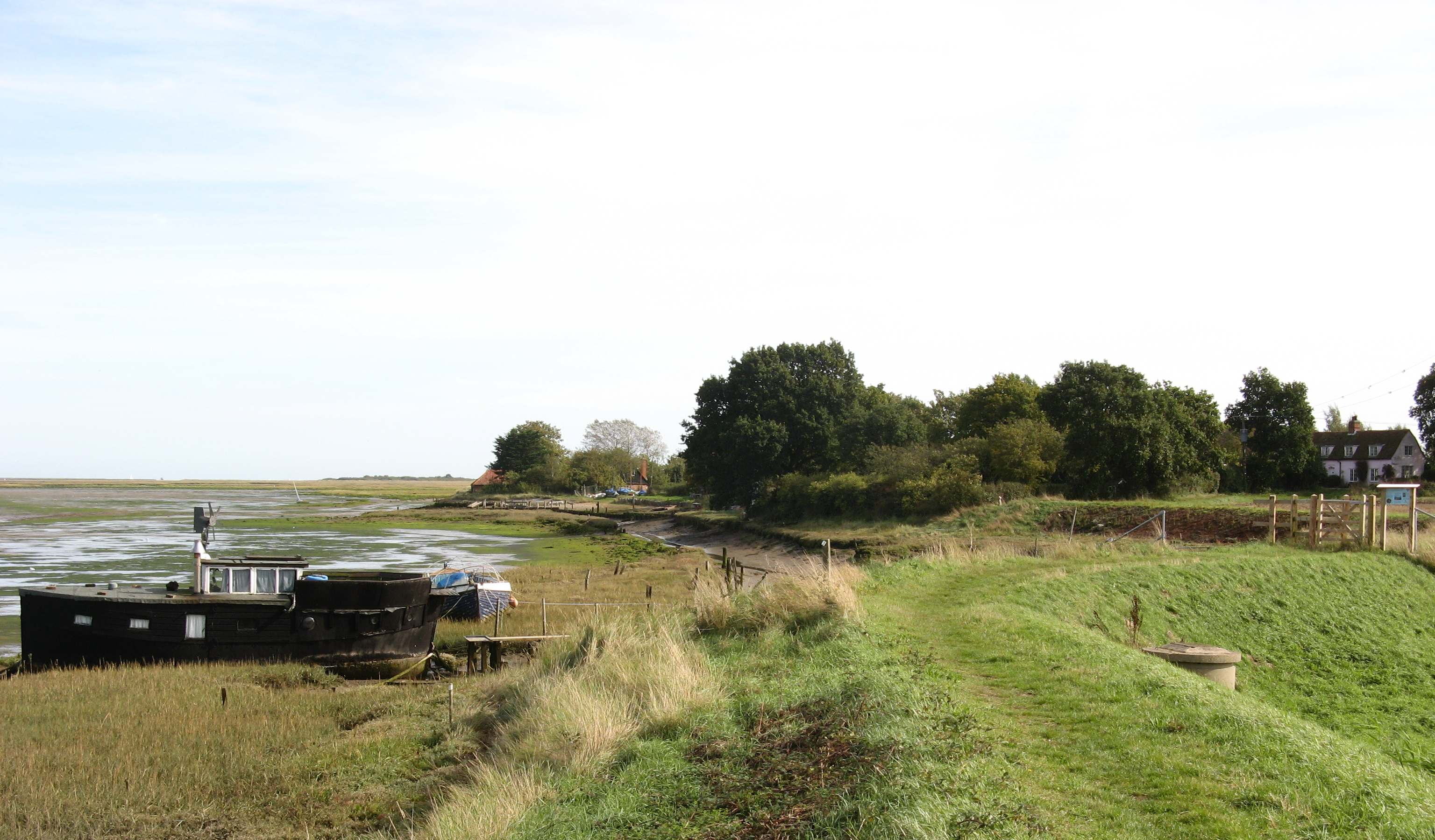 A distant view of Landermere Wharf, Essex, England. Houseboat in the left foreground.